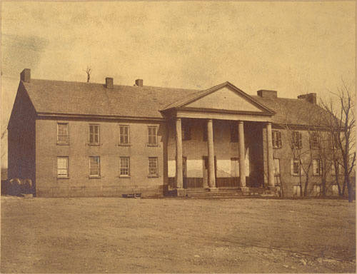 McMillan Hall at Washington & Jefferson College viewed from the west.